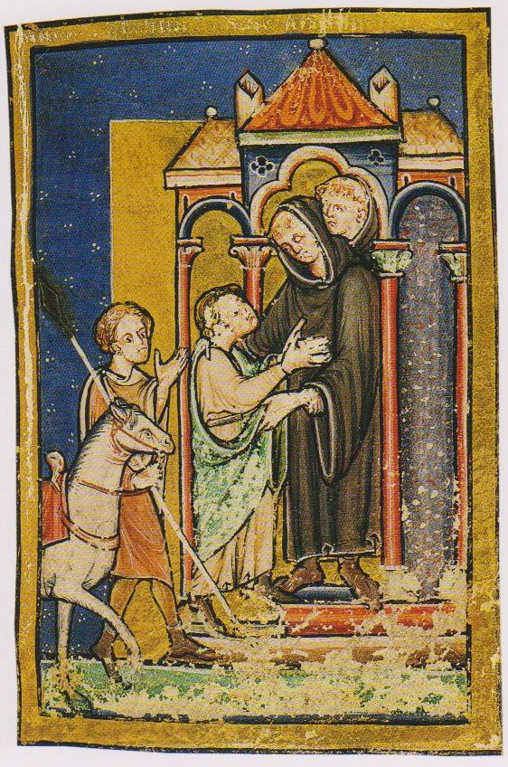 A miniature in the British Library Yates Thomson MS 26, Bede's Prose Life of St Cuthbert, depicting Cuthbert's meeting with Boisil at Melrose